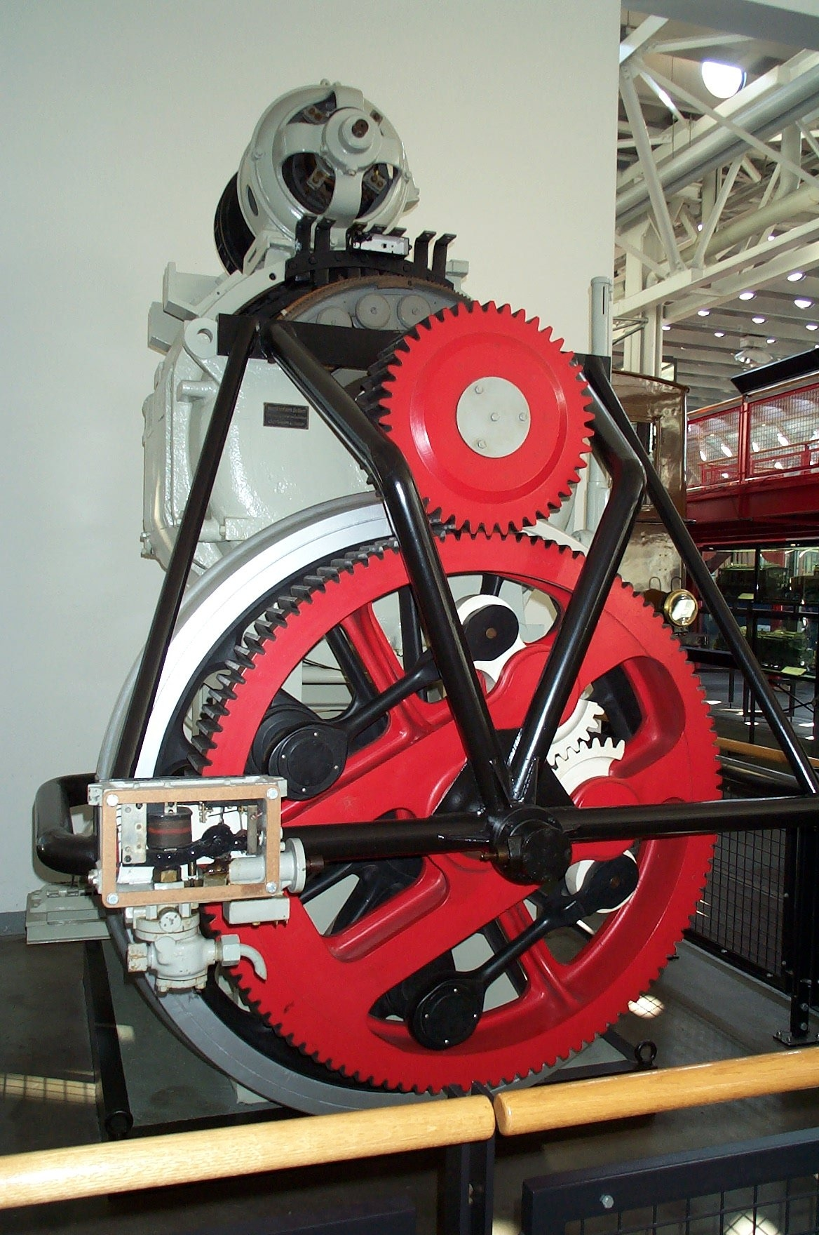 Model of Buchli drive shown at the Swiss Transport Museum, Lucerne